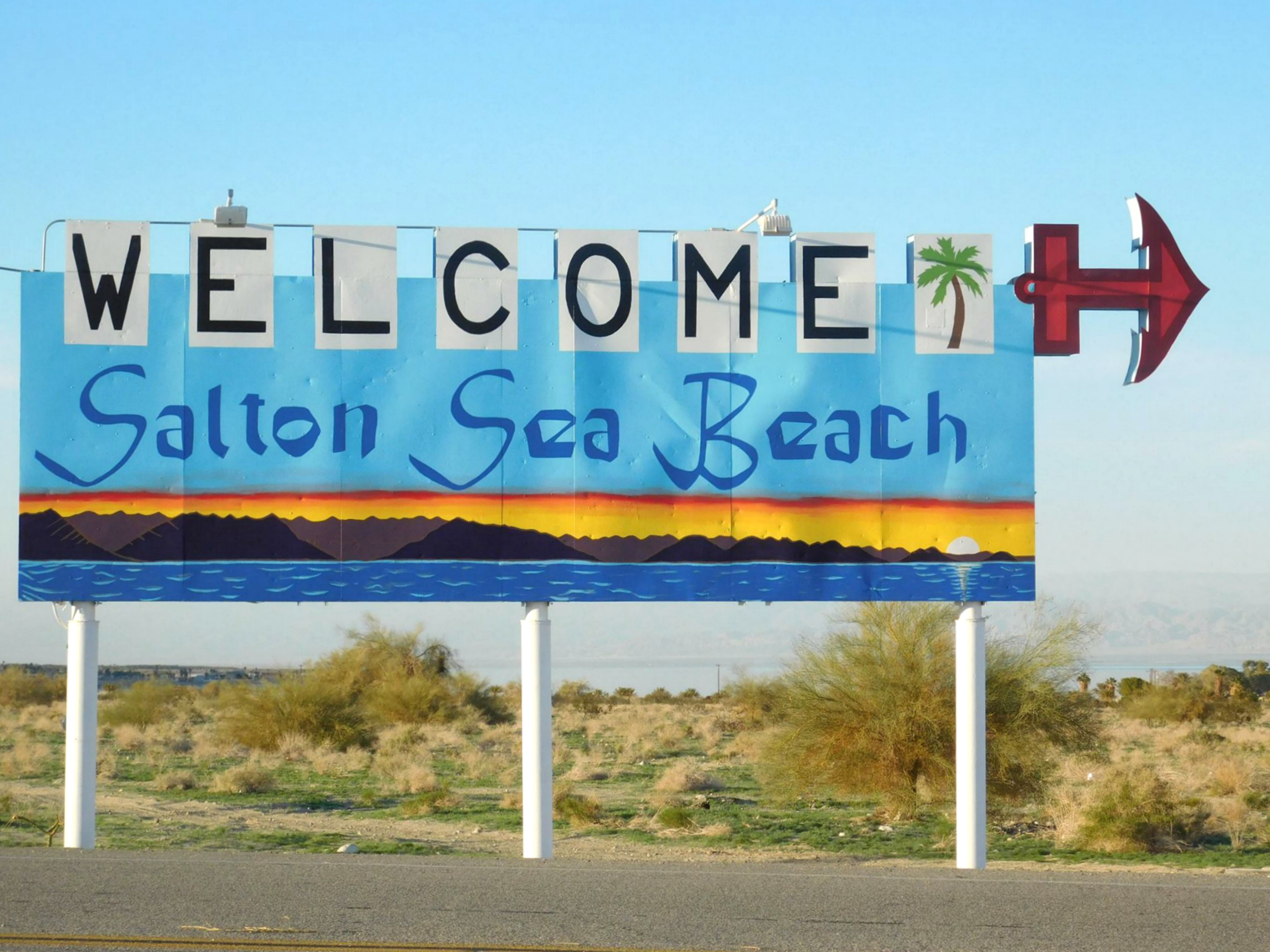 Updated 2017 "Welcome to Salton Sea Beach" sign in Salton Sea Beach, California.